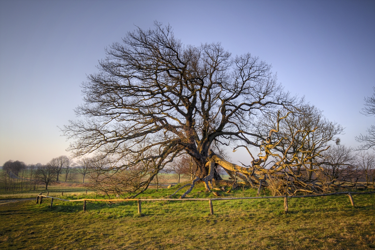 This is a more than 700 years old oak at Suckow on Usedom (Mecklenburg-Western Pomerania, Germany).